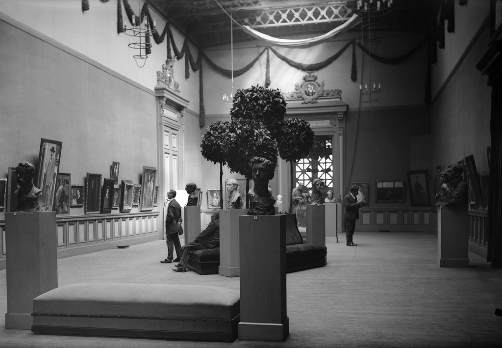 Còpia moderna del negatiu original de vidre 20 x 25 cm Llegat Dolors Moros, 2010 Museu d'Art Jaume Morera 3274